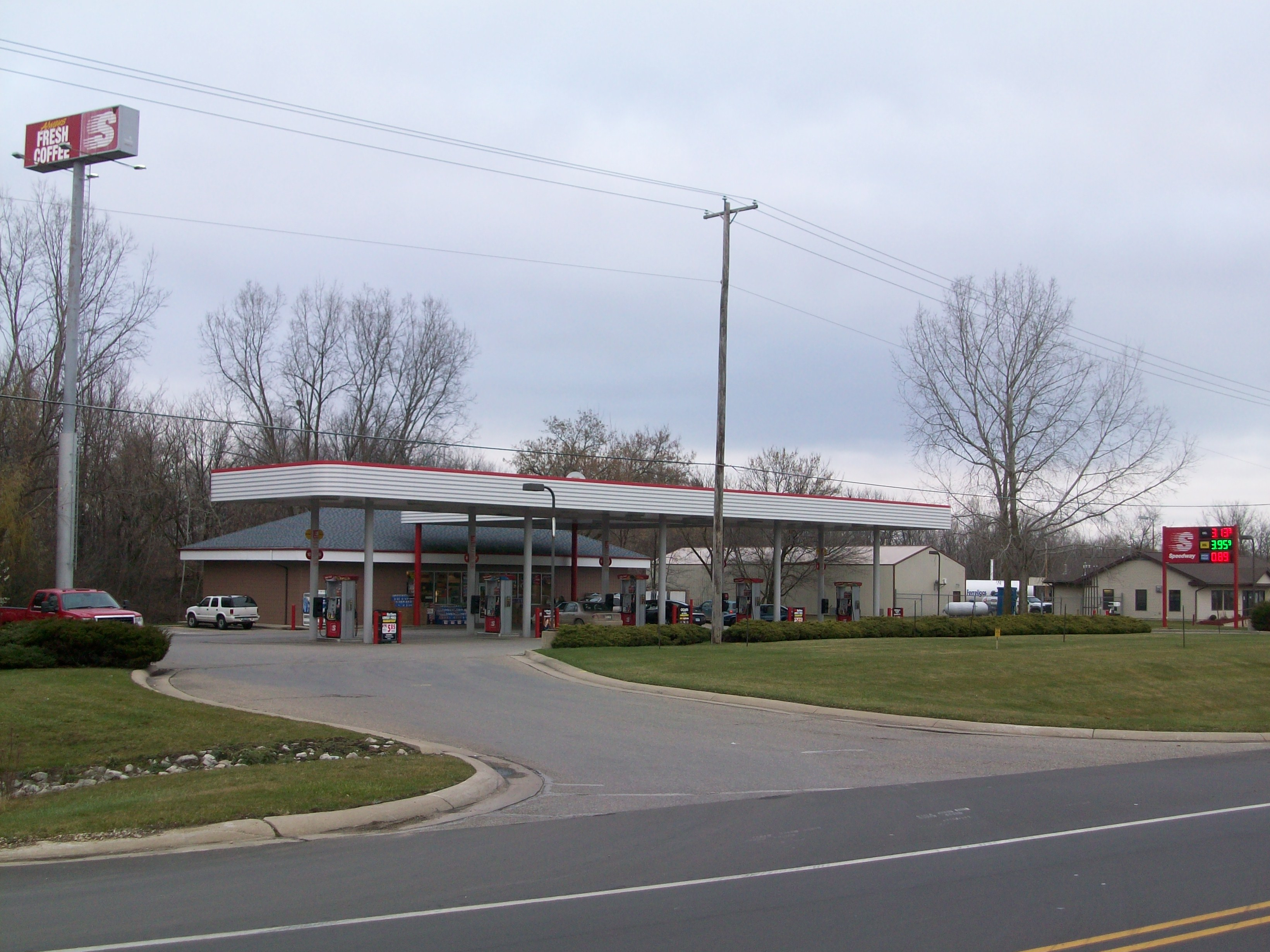 This is a medium-sized store in Bath Township, Michigan.